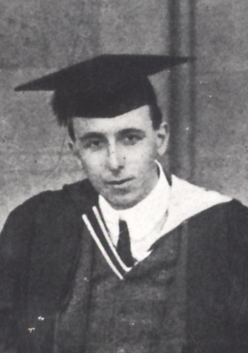 UQFL466 AL P 54 - Professor Henry James Priestley (mathematics and physics), University of Queensland (then at Old Government House), 3 April 1911